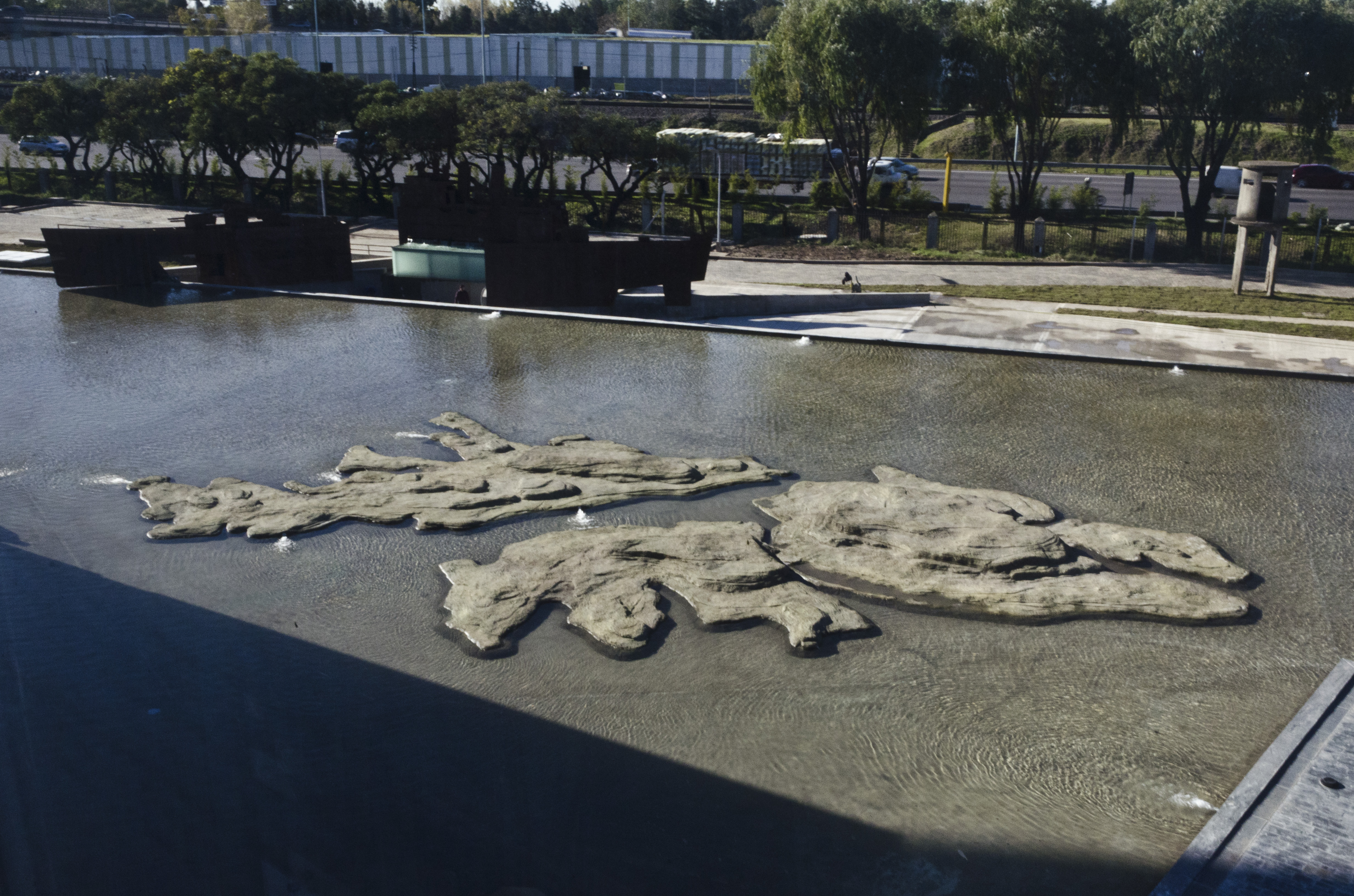 Reflecting pool with an outline of the Falkland/Malvinas Islands at the Falklands and South Atlantic Islands Museum (Museo Malvinas e Islas del Atlántico Sur), Buenos Aires. Photo: Romina Santarelli / Ministerio de Cultura de la Nación.